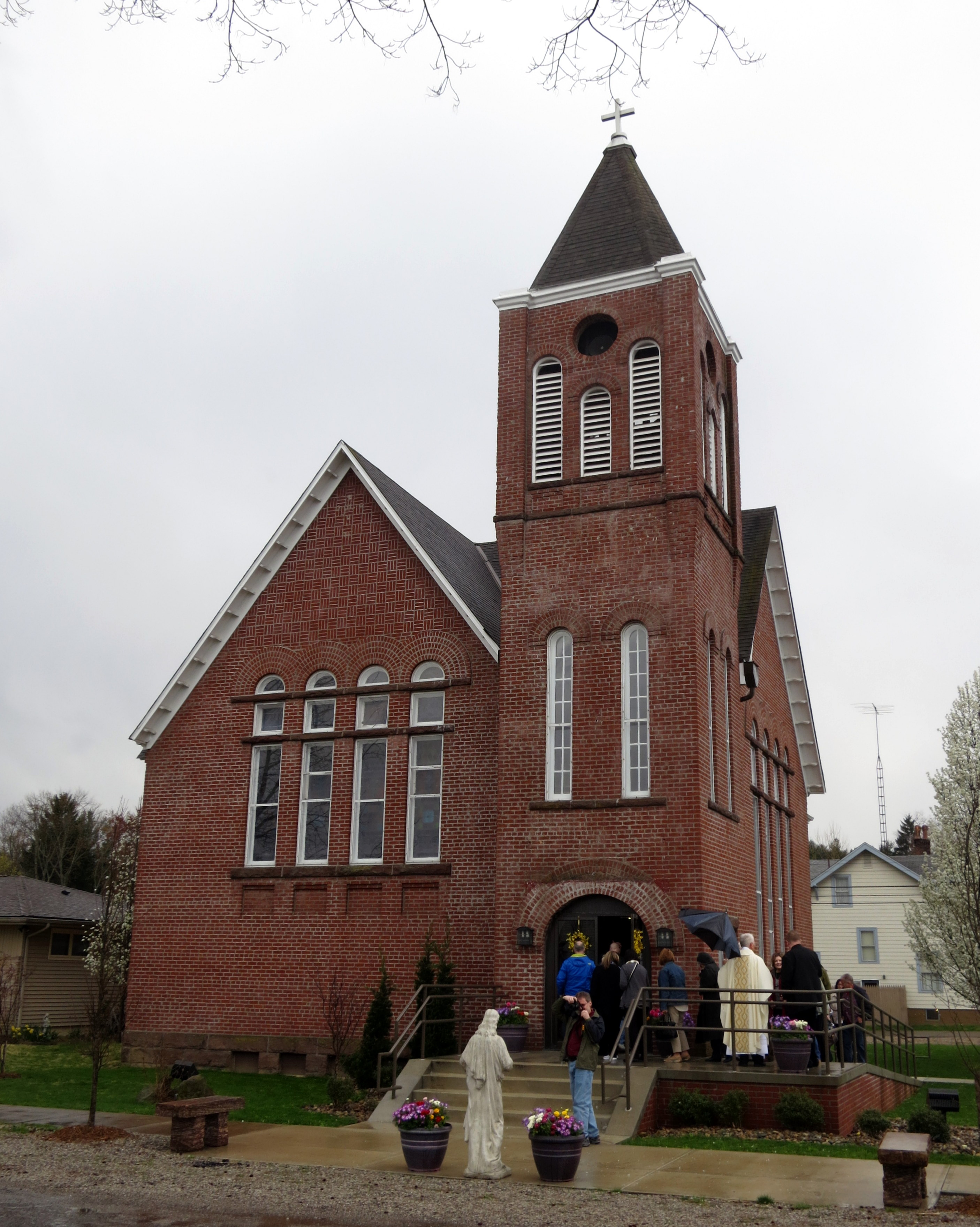 Saint Ann Catholic Church (Dresden, Ohio) - exterior